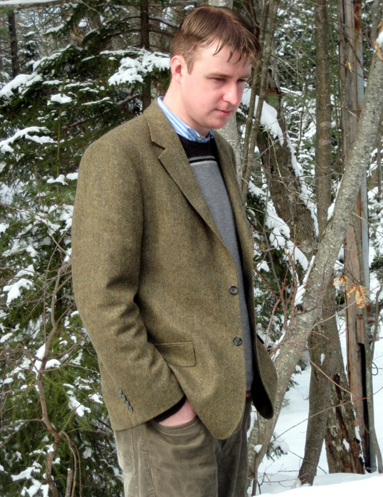 A sportcoat being worn.